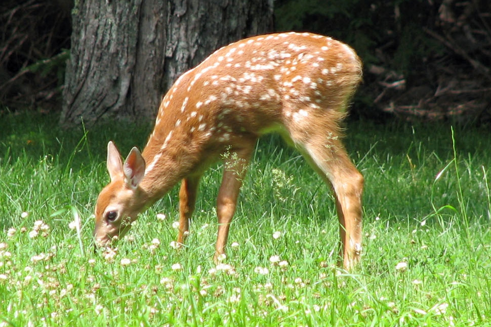 White-tailed deer fawn in Acadia National Park, Maine, United States.